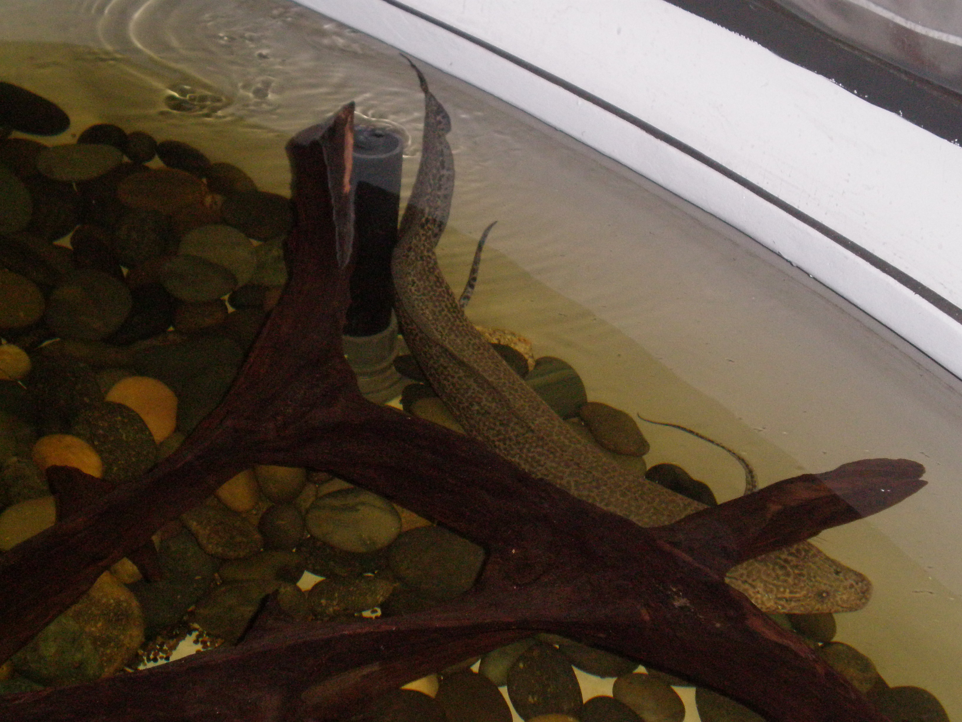 An African Lungfish (Protopterus annectens) at the Steinhart Aquarium at the California Academy of Sciences in San Francisco.